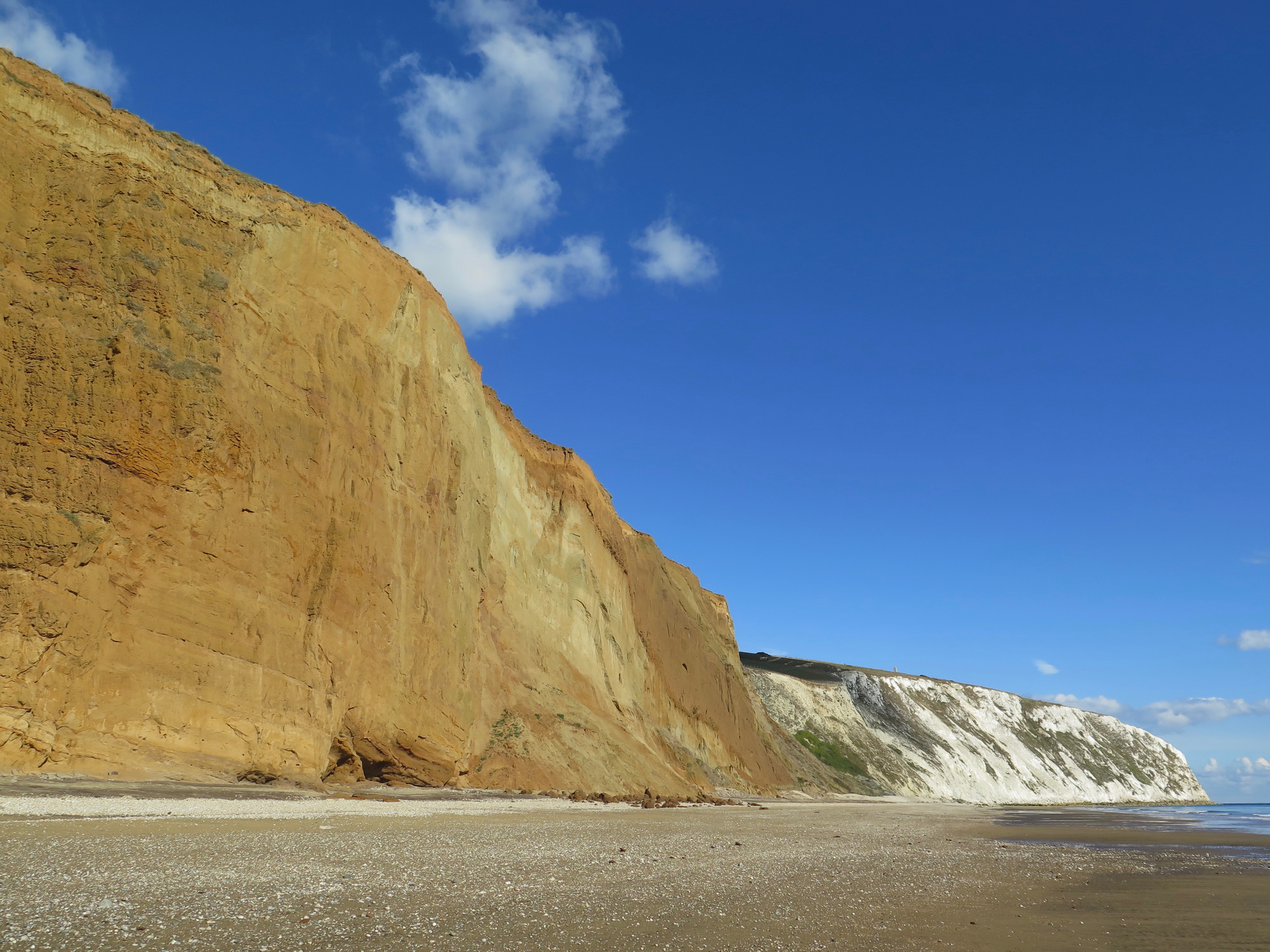 Sandown's cliffs are easily accessible via Yaverland beach.